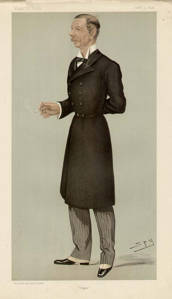 Caricature of Colonel Sir Henry Edward Colville KCMG CB. Caption read "Odger".